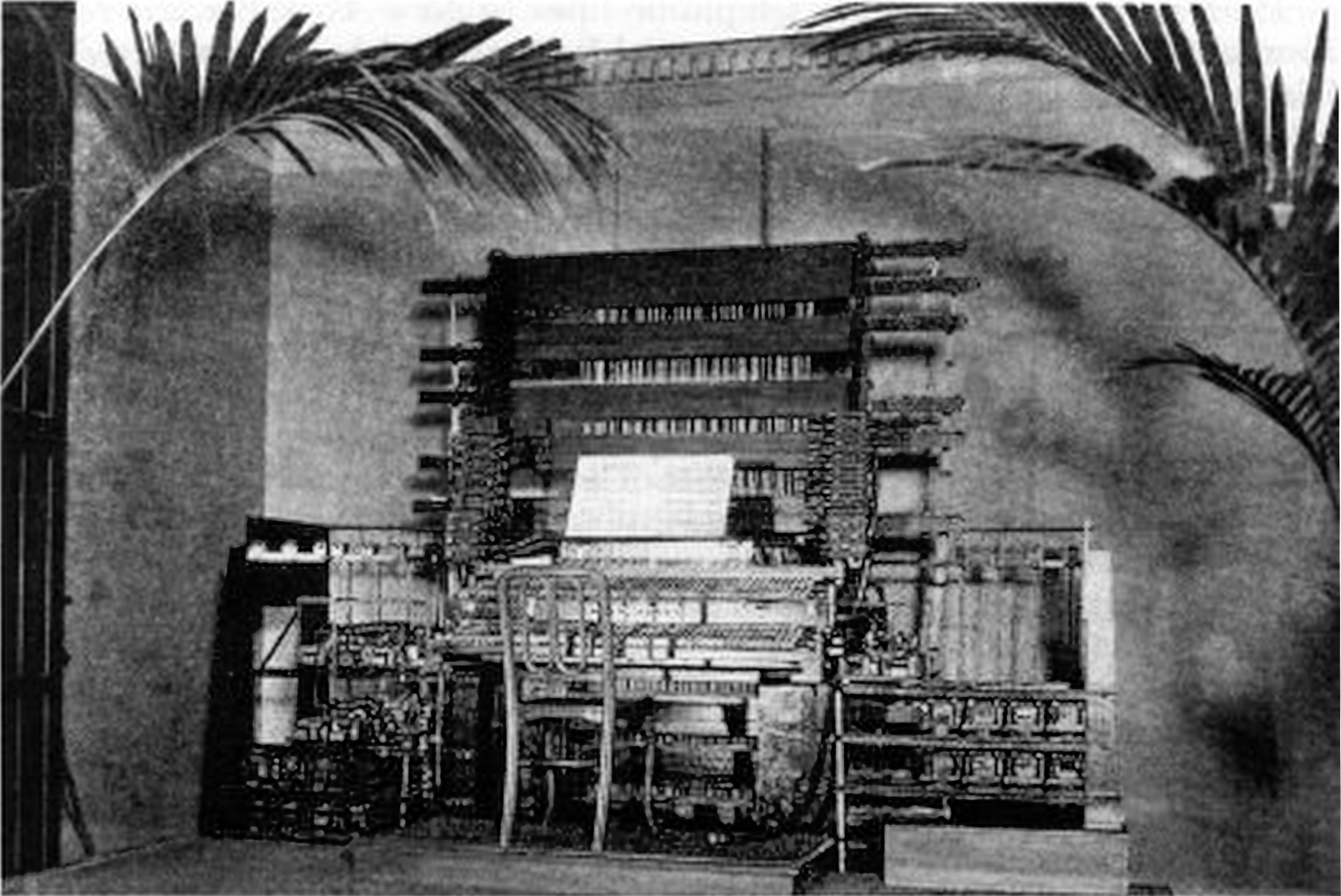 Telharmonium console by Thaddeus Cahill Original